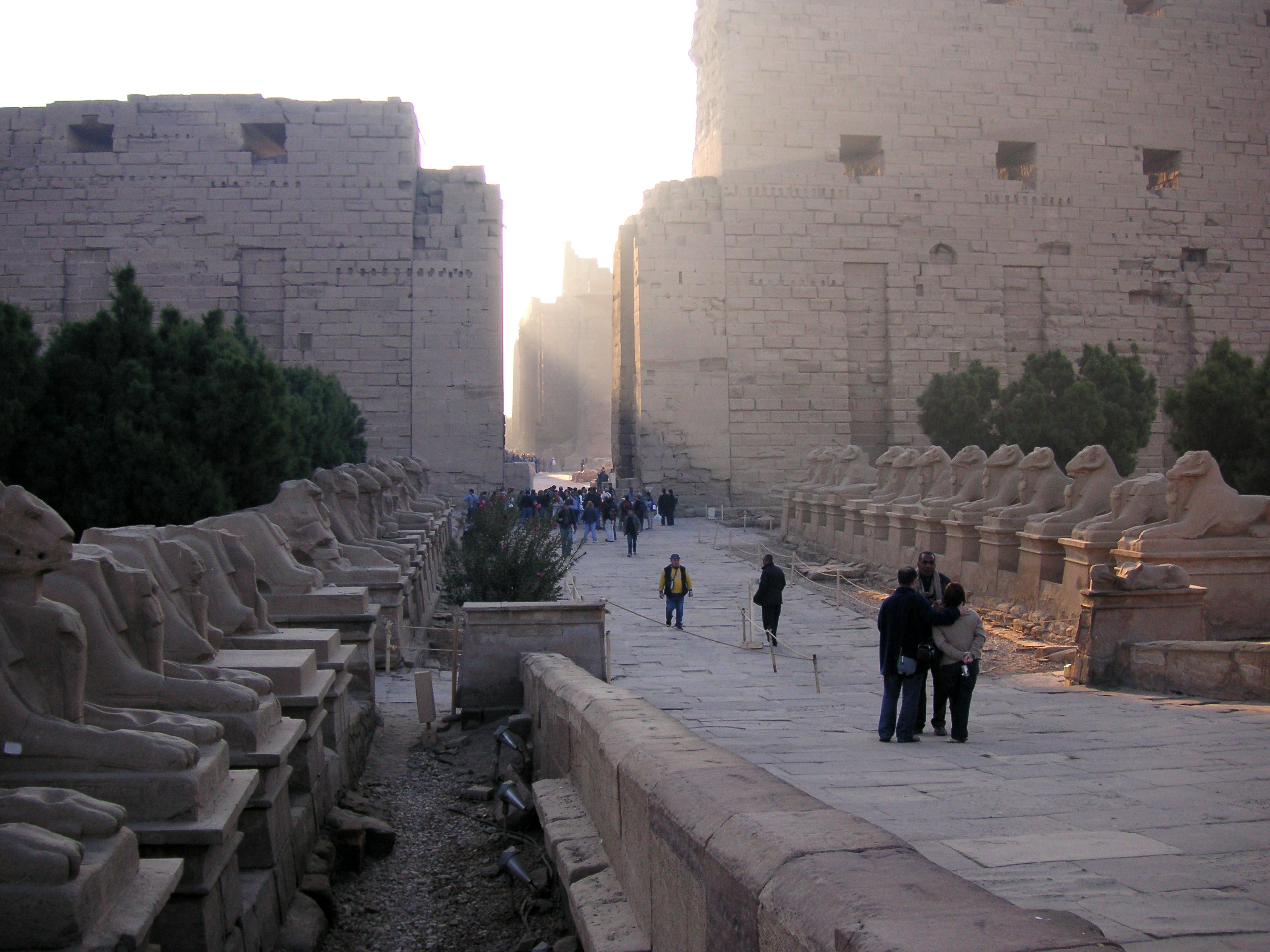 Karnak Temple near Luxor, Egypt